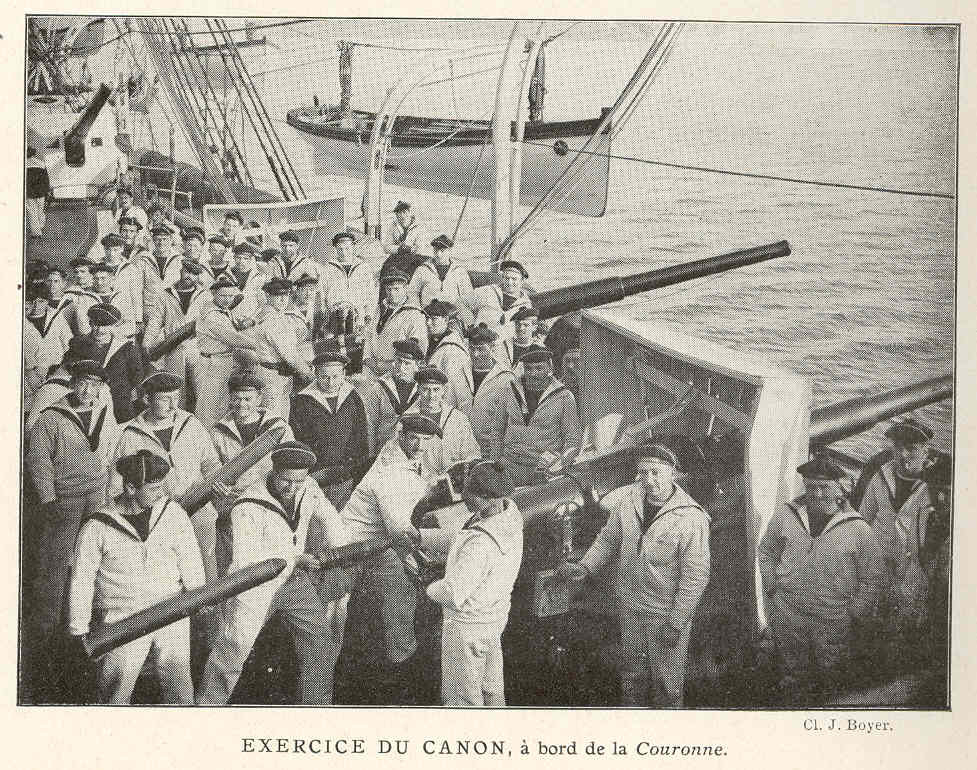 Subject: Ordnance, Naval, Naval gunnery, Couronne (Ship) Tag: Vessels, People